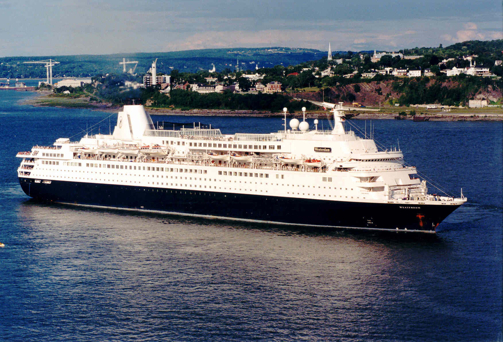 The cruise ship Westerdam leave Québec City on August 20, 1997.